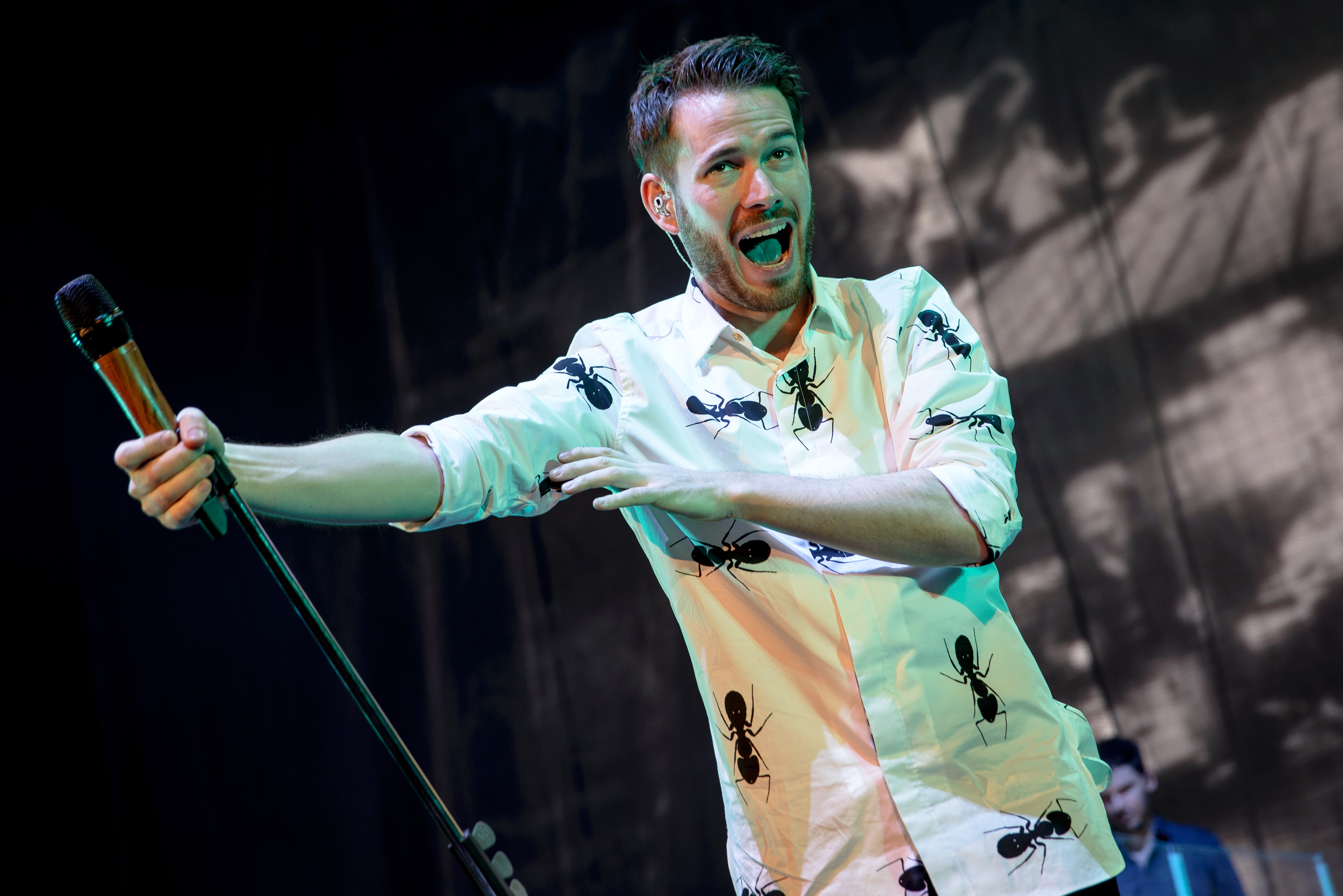 Revolverheld Live @ Munich 2016